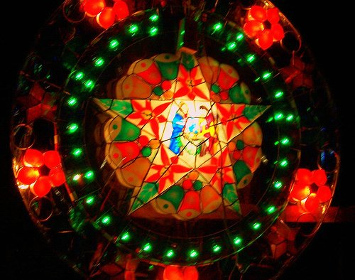 A Parol (Christmas Lantern) in the Philippines